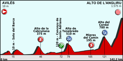 Profile of the 15th stage: Vuelta a España 2011